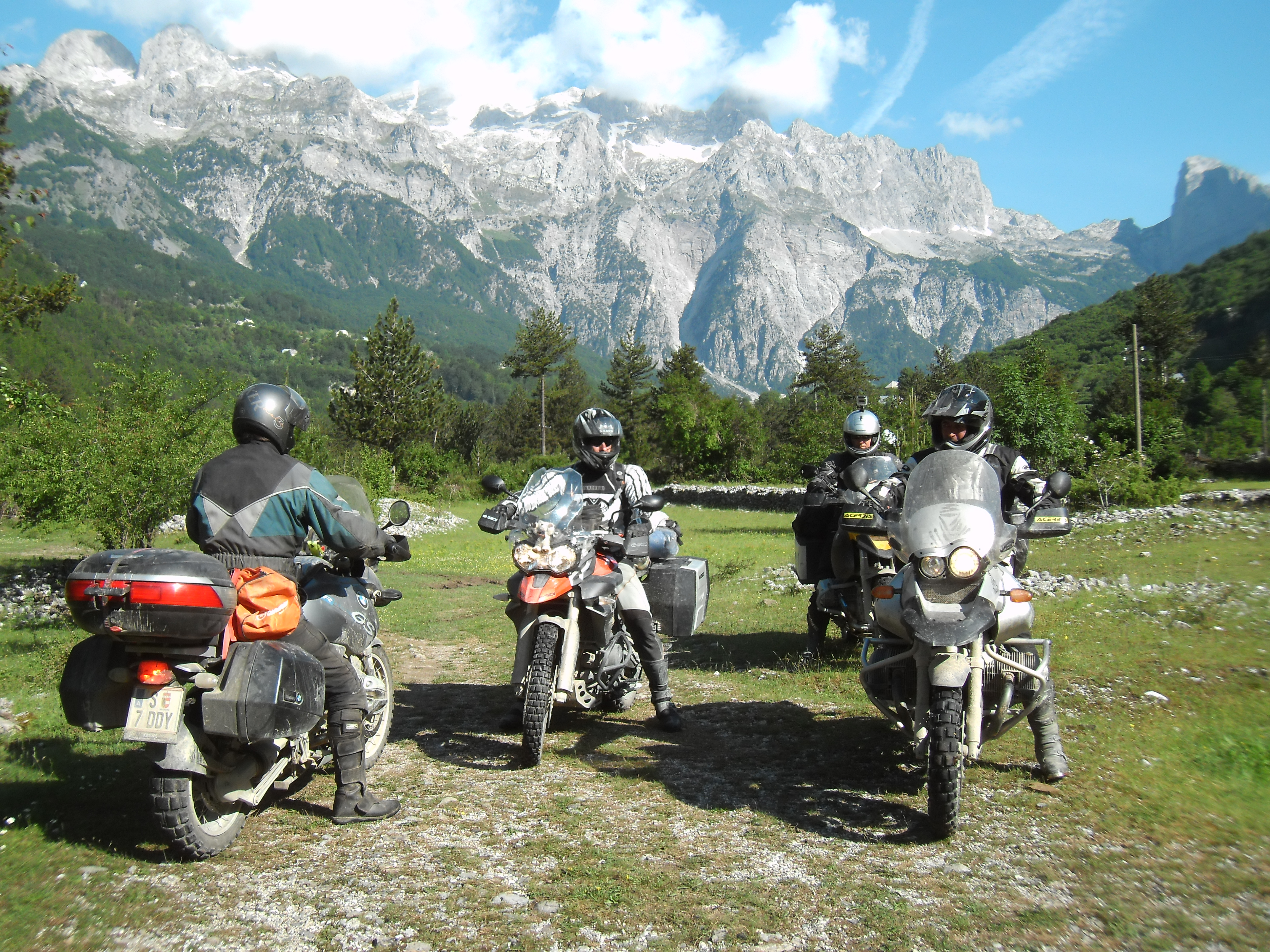 Offroad-Motorcyclers in the village of Theth in the north-albanian alps